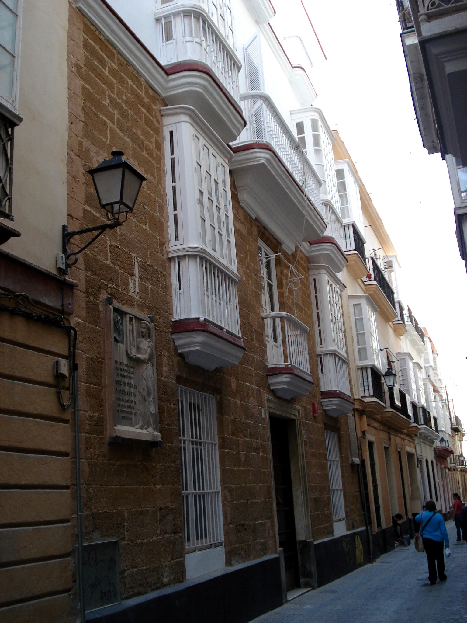 House birthplace of spanish poet Jose Maria Peman in the city of Cádiz